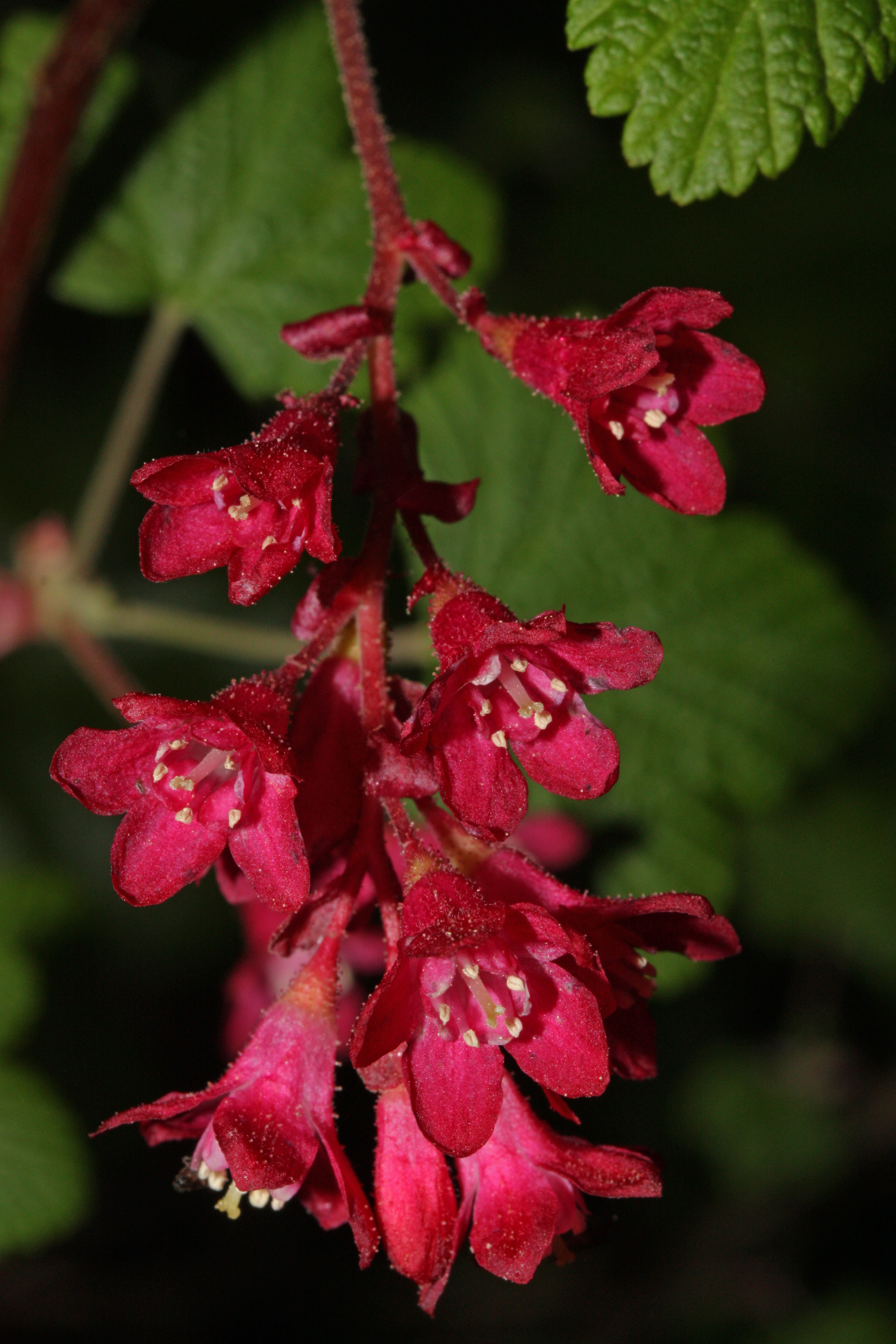 Red-flowering Currant